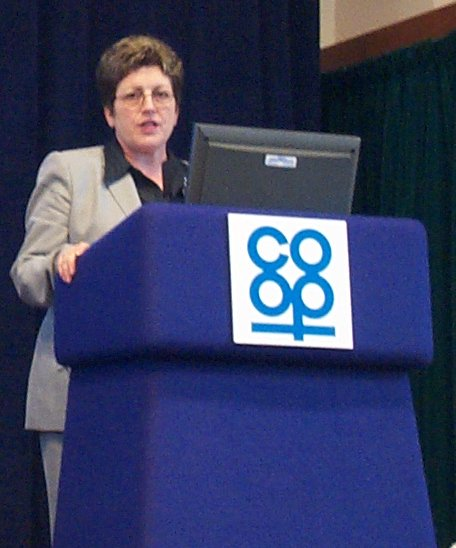 Dame Pauline Green, speaking at the annual general meeting of the Oxford, Swindon and Gloucester Co-operative Society Limited, held at the Royal Agricultural College, 2005-04-23. Copyright © 2005 Kaihsu Tai.